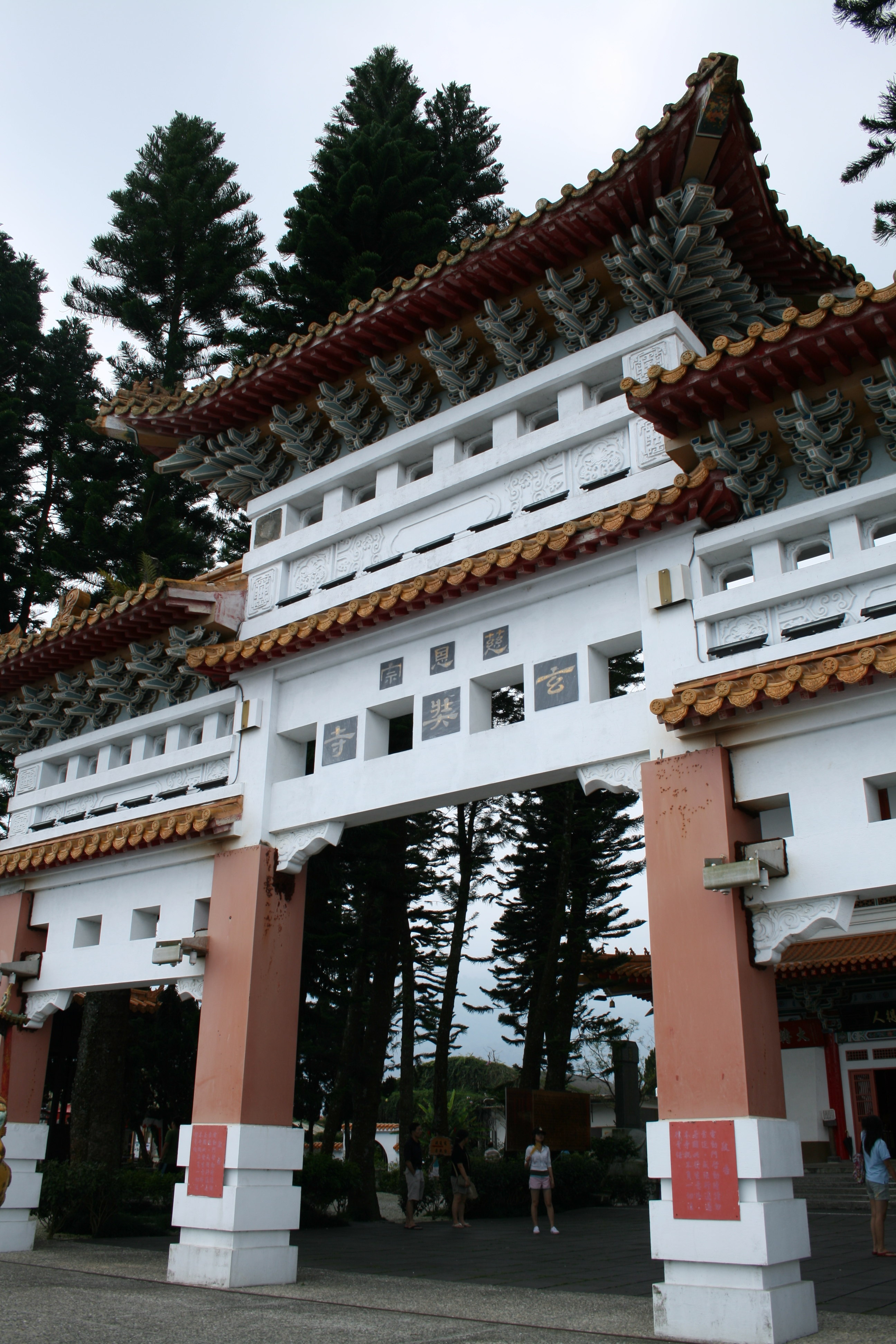 Xuanzang Temple beside Sun Moon Lake. This is the enterance.